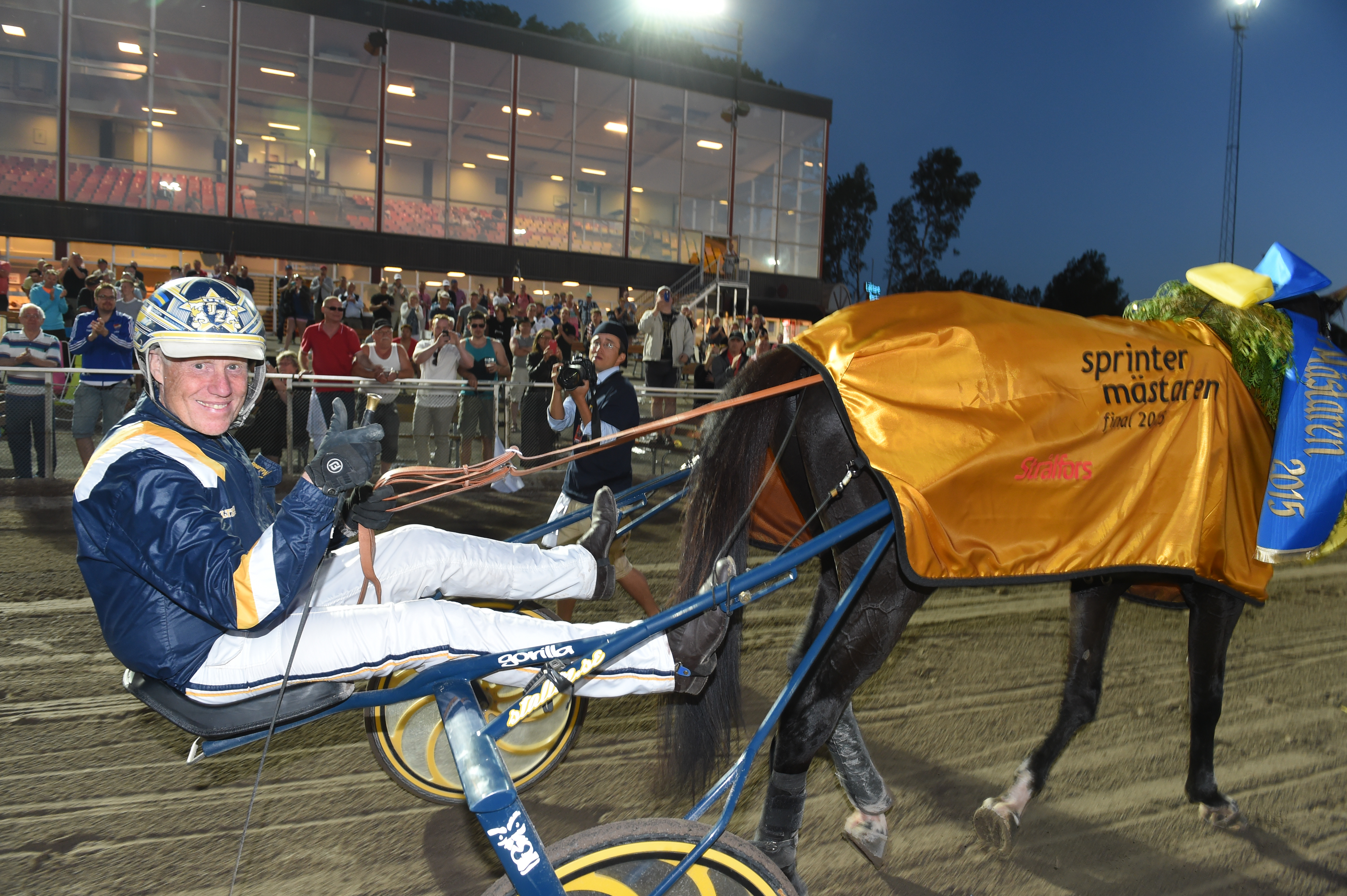 Stefan Melander after winning "Sprintermästaren" 2015 with Nuncio.